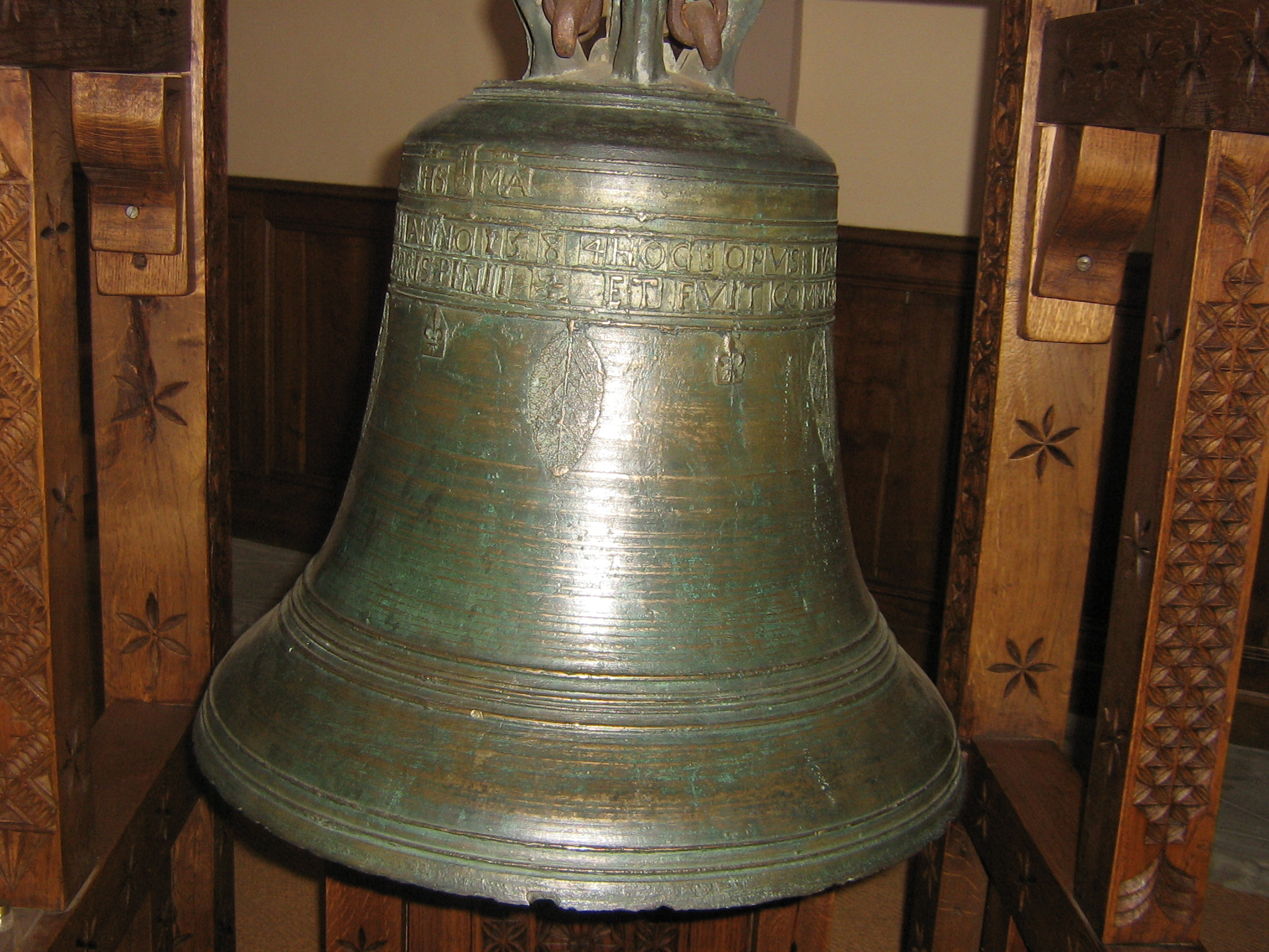 Image of Saint-Sorlin-de-Morestel.